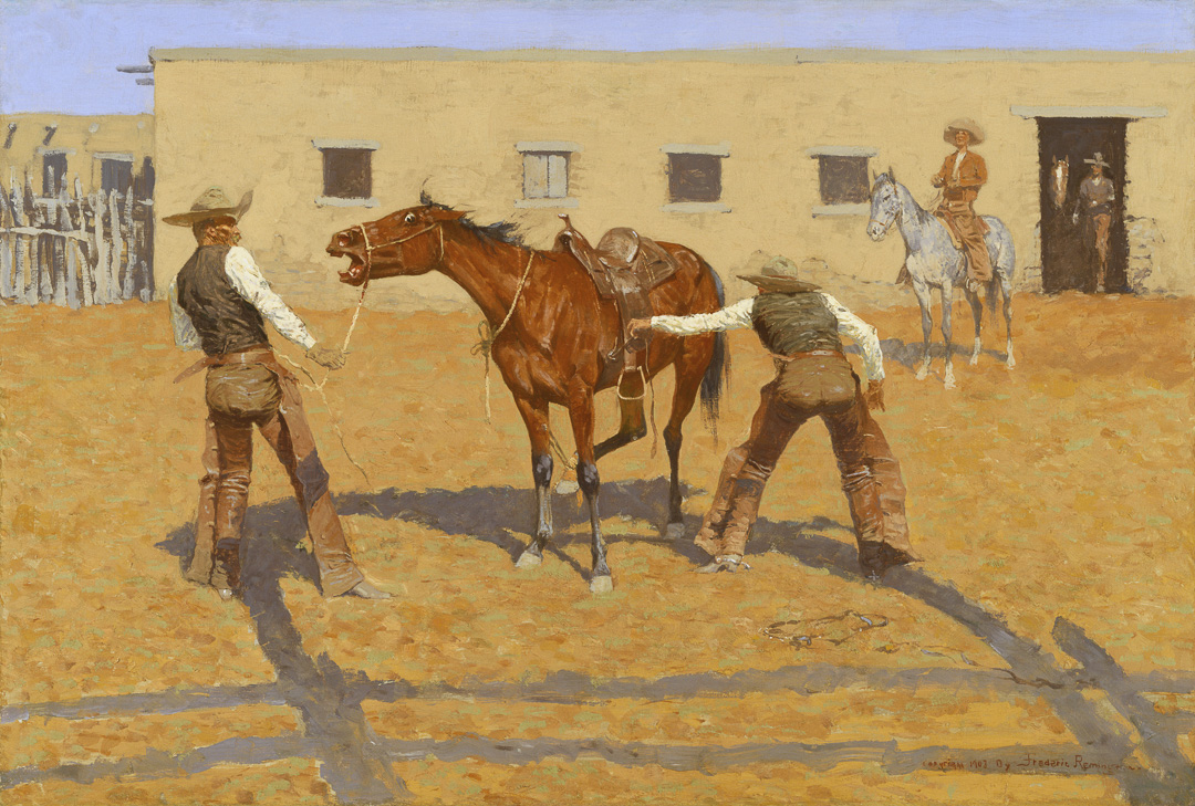 Frederic S. Remington (1861-1909), His First Lesson, 1903, Oil on canvas, Amon Carter Museum of American Art, Fort Worth, Texas, 1961.231